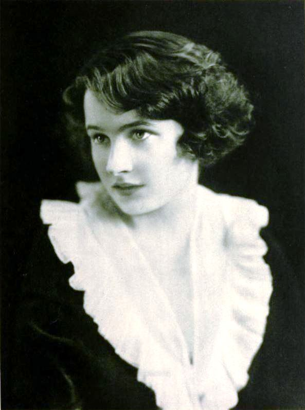 Actress May Collins (1903 – 1955) on page 11 of the July 1921 Photoplay magazine.